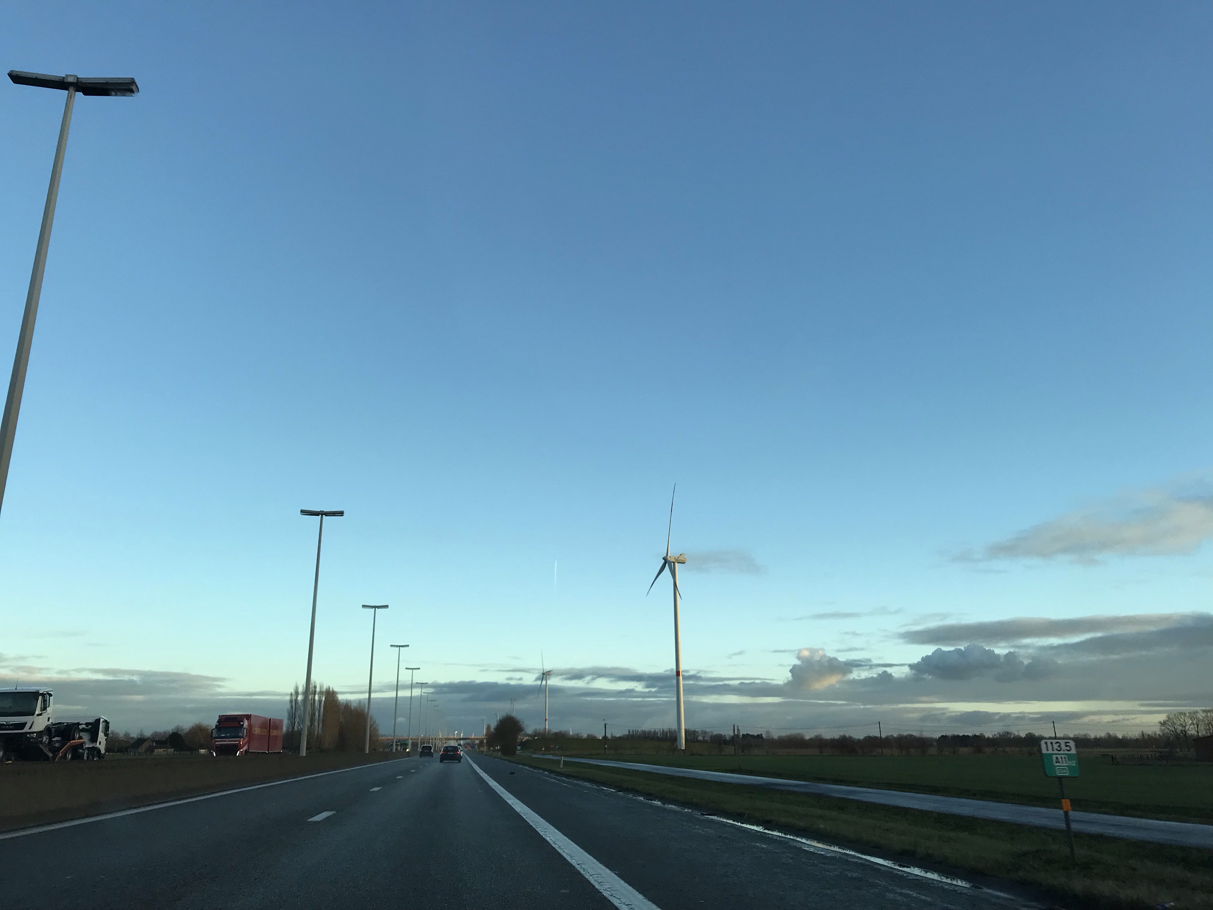 View on windmills from E34 (Assenede)